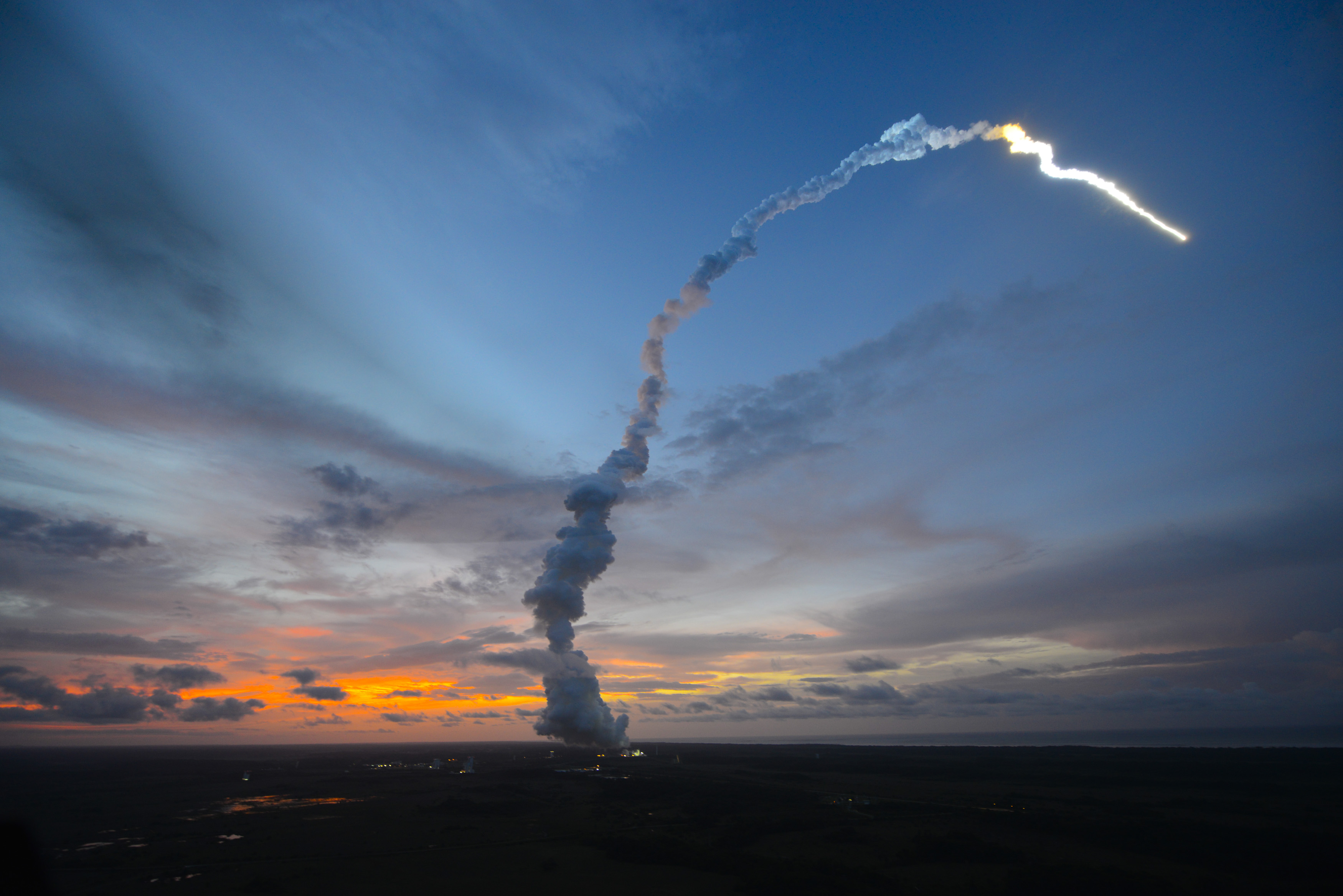 ATV-4 Albert Einstein lifts off from Kourou.